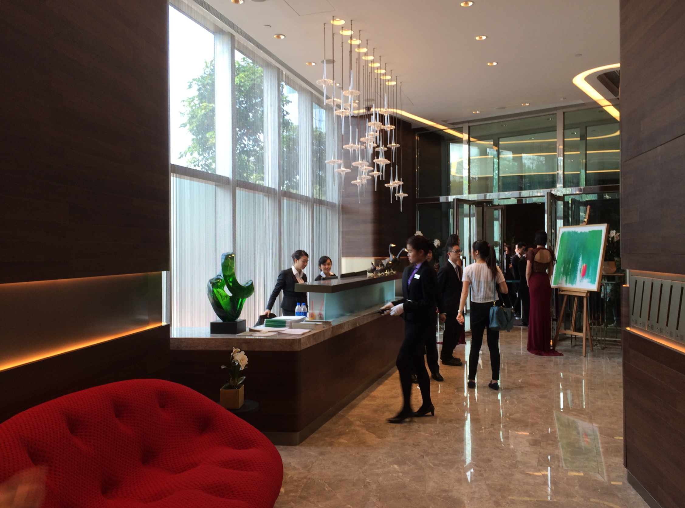 High Park Grand Lobby